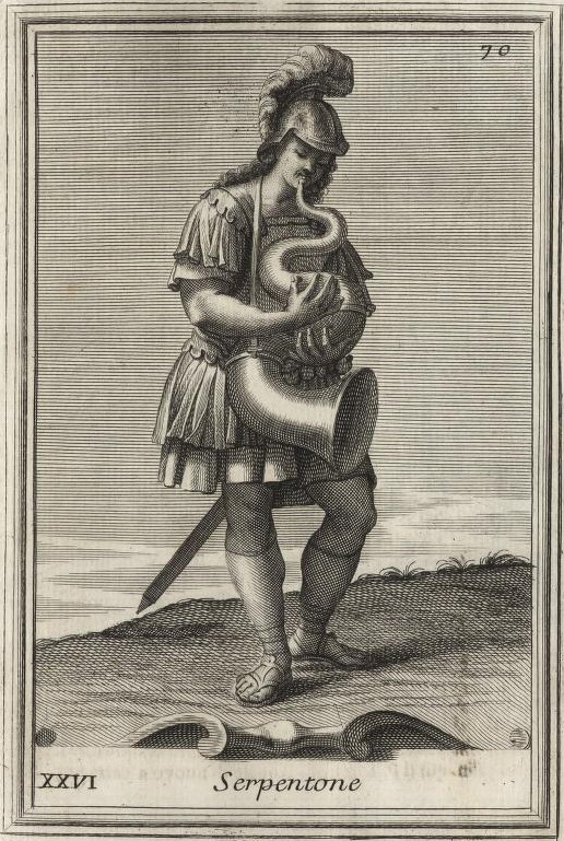 A musician playing a musical instrument called the serpent: Engraving from Filippo Bonanni's Gabinetto Armonico pieno d'Instromenti (Roma, 1723)